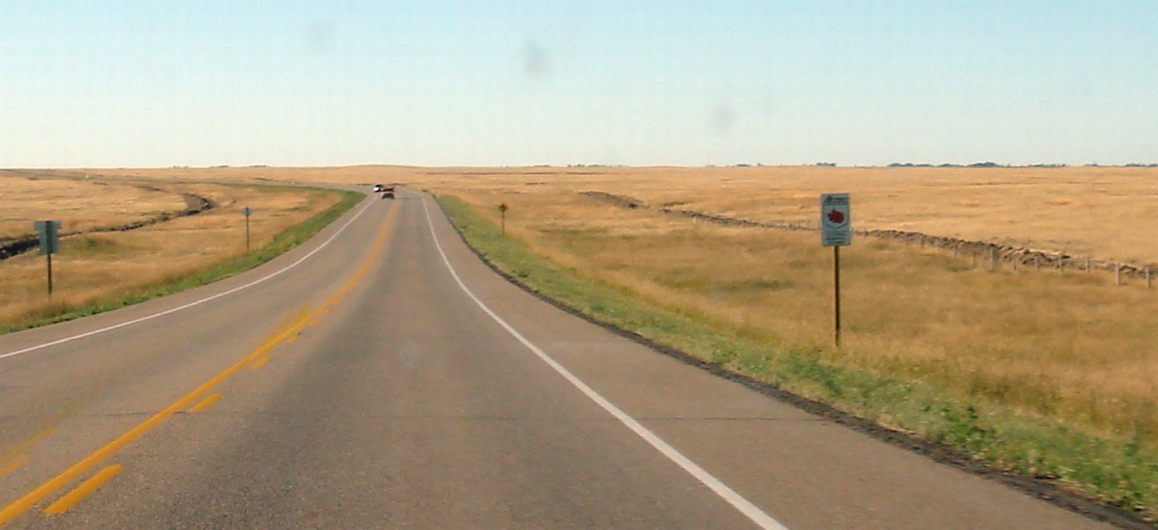 Highway 36 (Veteran Memorial Highway, southbound, Alberta, Canada